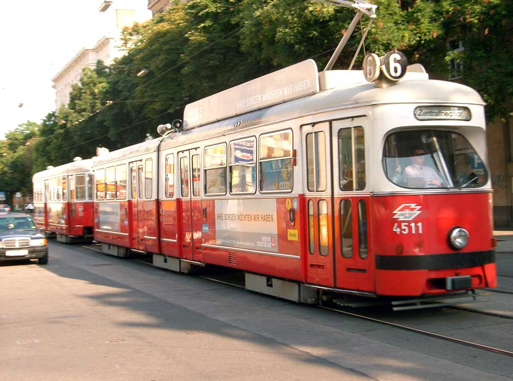 An older tram in Vienna, Austria (10th district, Quellenstraße)